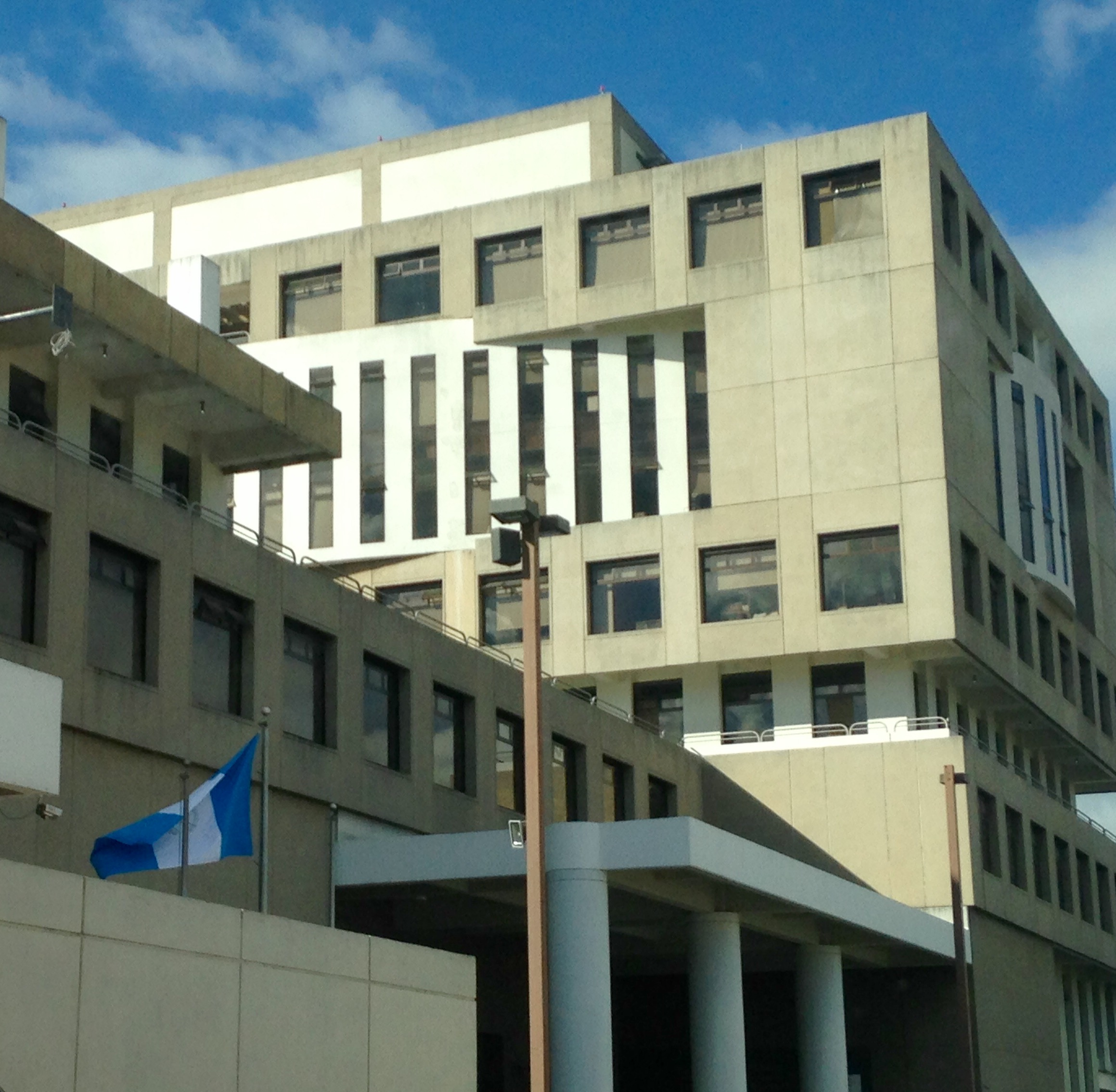 Edificio del instituto Guatemalteco de Turismo en 2016